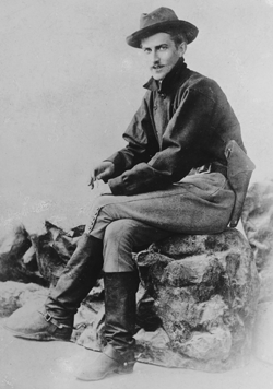 American poet Stephen Crane in Greece in 1897.